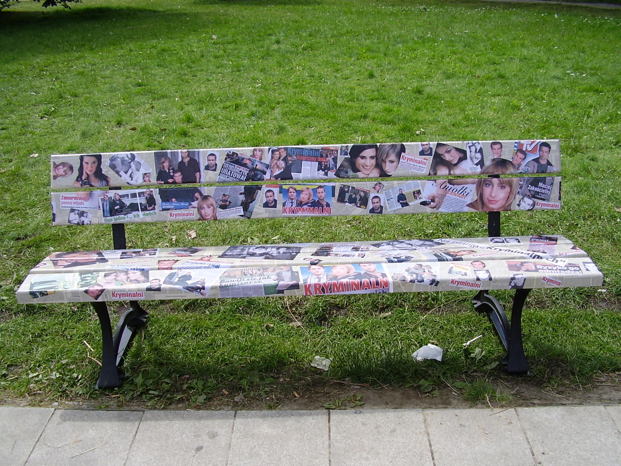 Promenada Gwiazd in Międzyzdroje (Poland)